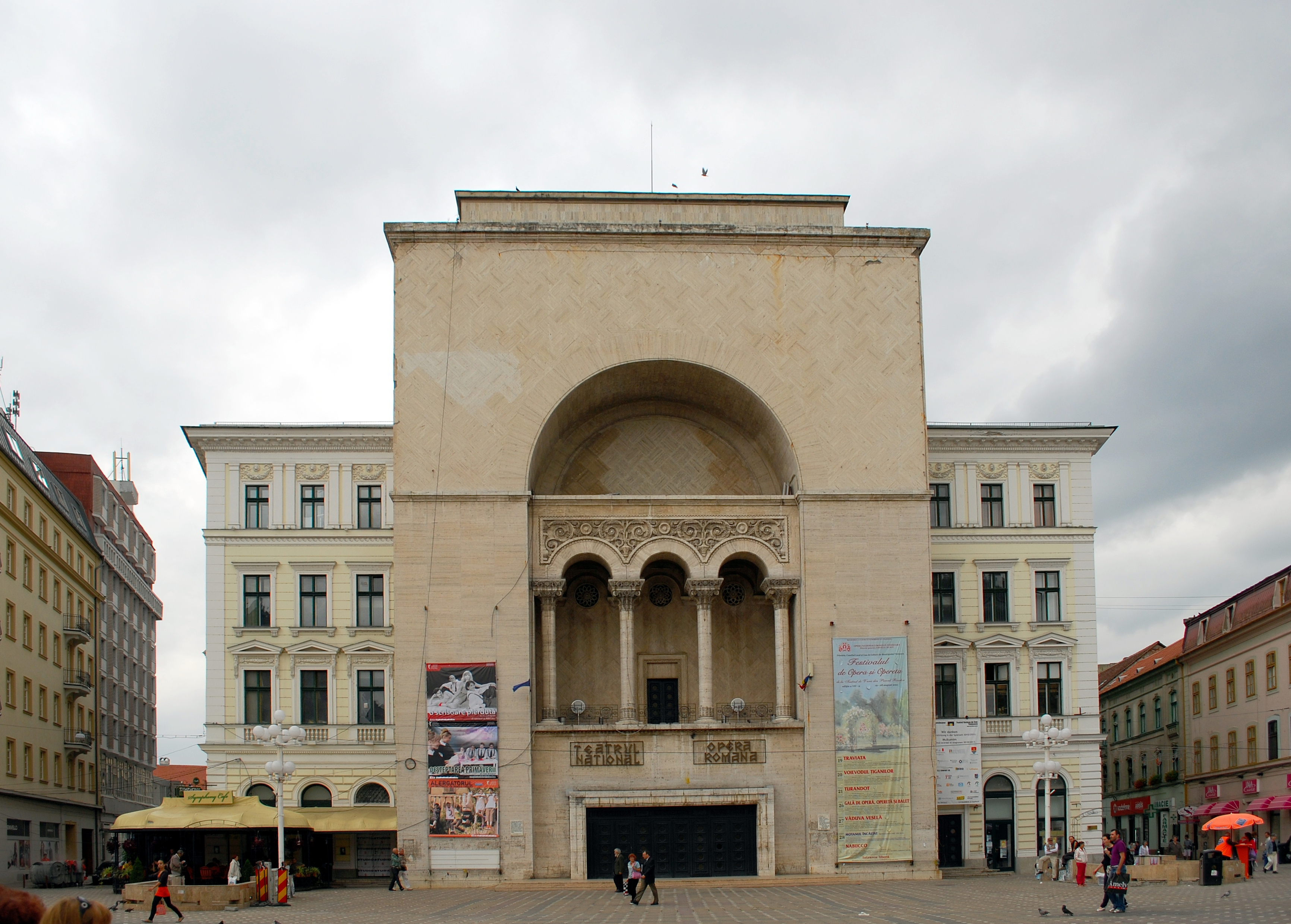 National Theatre in Timişoara, RomaniaRomână: Teatrul Naţional din Timişoara, România